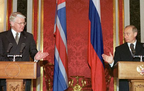 THE GRAND KREMLIN PALACE, MOSCOW. President Putin with President Olafur Ragnar Grimsson of Iceland during a joint news conference following their negotiations.